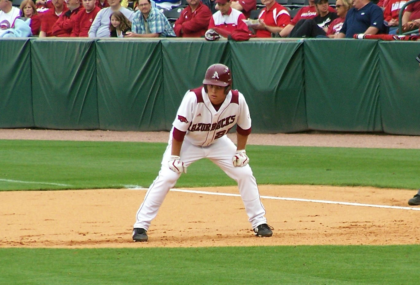 Collin Kuhn leading off first base for the 2010 Arkansas Razorbacks in Baum Stadium, Fayetteville, Arkansas, USA.